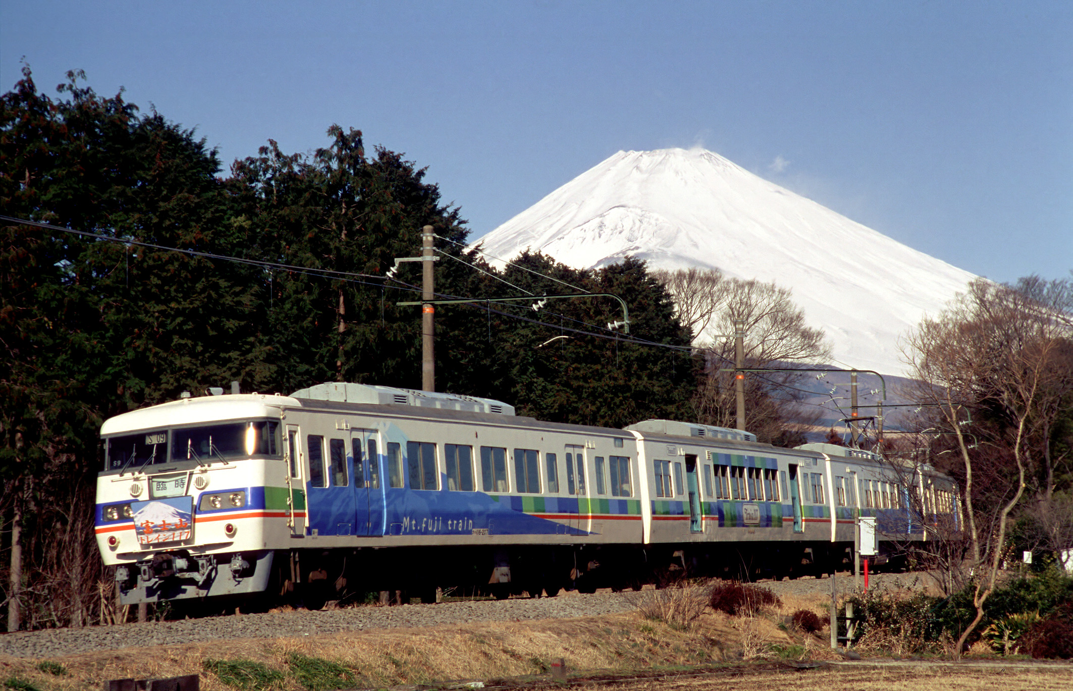 Central Japan Railway Company 117 series EMU on the special rapid service called as "Fujisan train 117" running between Iwanami and Fujioka in Gotenba line.